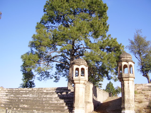 Tilla Jogian